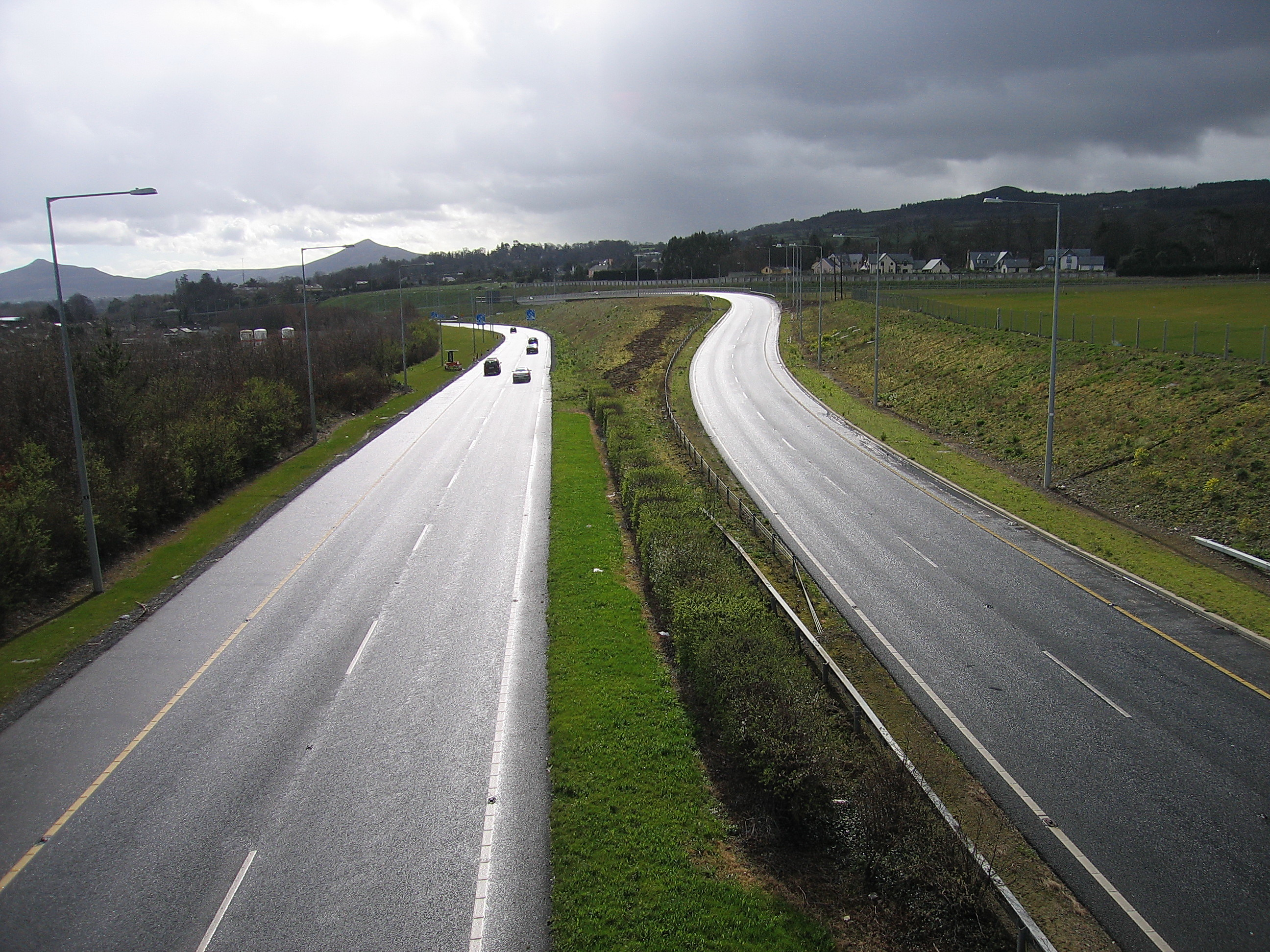 The M11 in Shankhill, County Dublin, near to Shankill, Loughlinstown and Ballycorus, Dublin, Ireland. The M11 joins the M50.